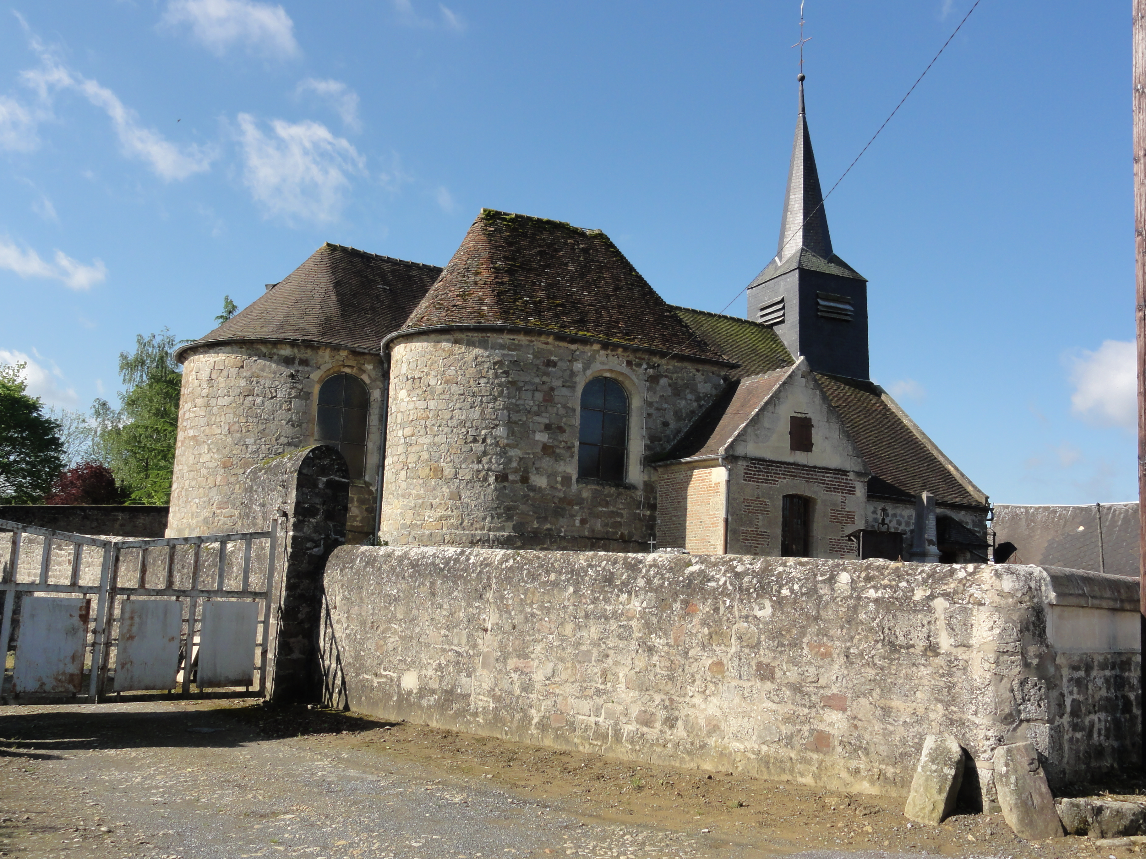 Bucy-lès-Cerny (Aisne) église